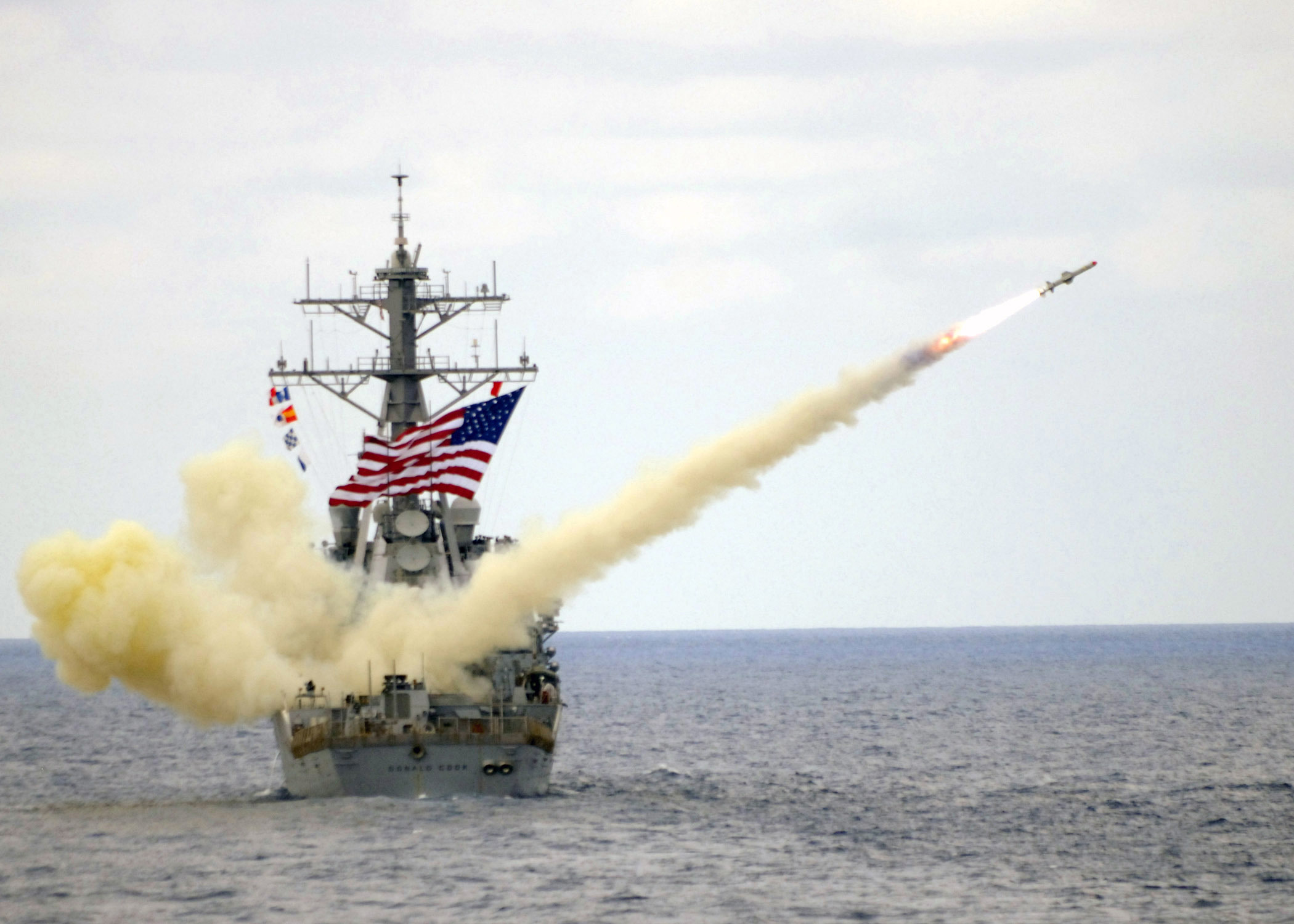 A Harpoon missile is launched from the guided-missile destroyer USS Donald Cook during the sinking exercise portion of UNITAS Gold. This year marks the 50th iteration of UNITAS, a multinational exercise that provides opportunities for participating nations to increase their collective ability counter illicit maritime activities that threaten regional stability. Participating countries are Brazil, Canada, Chile, Colombia, Ecuador, Germany, Mexico, Peru, U.S. and Uruguay.